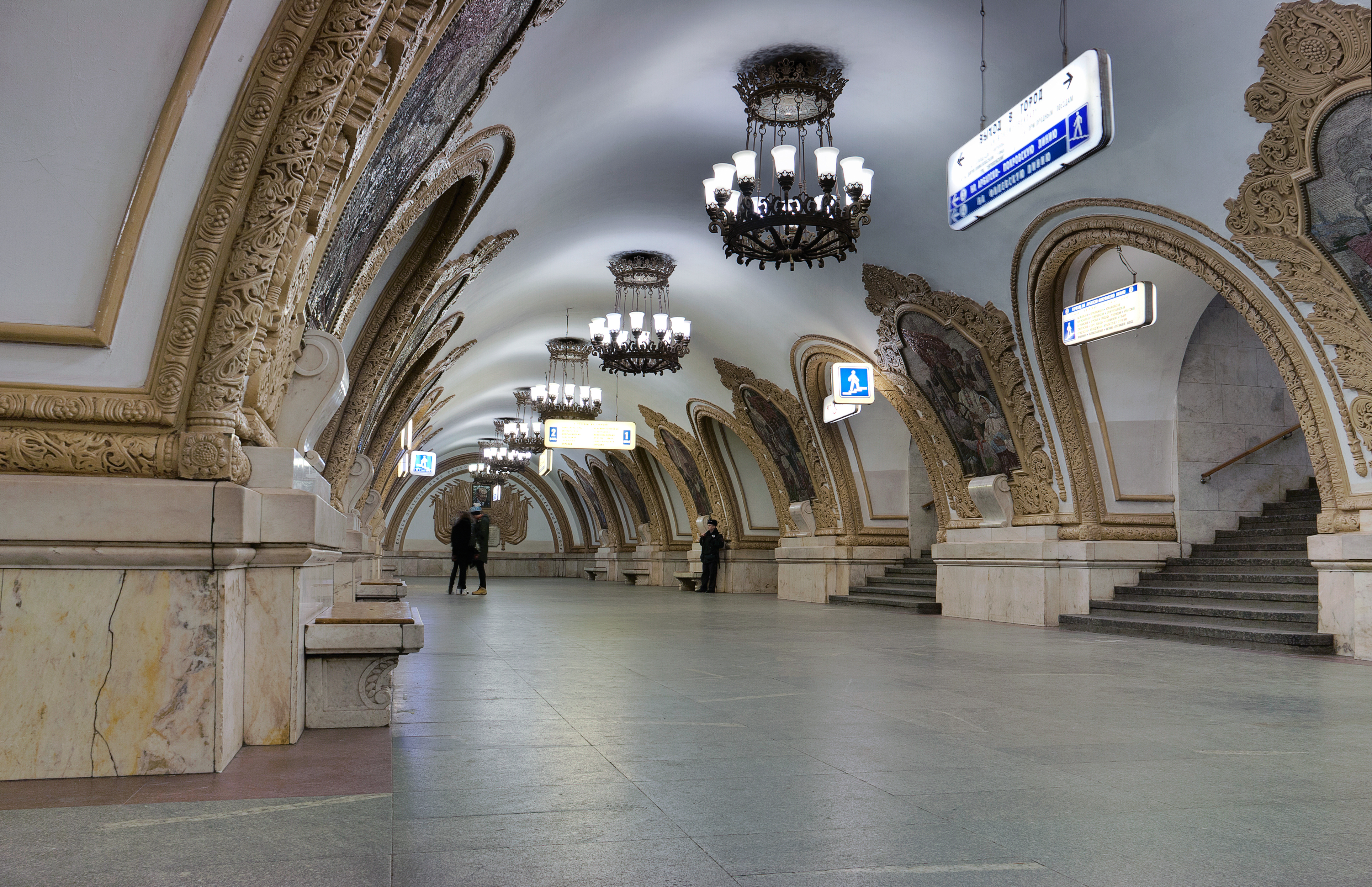 Moscow Metro, Kievskaya-Koltsevaya Station